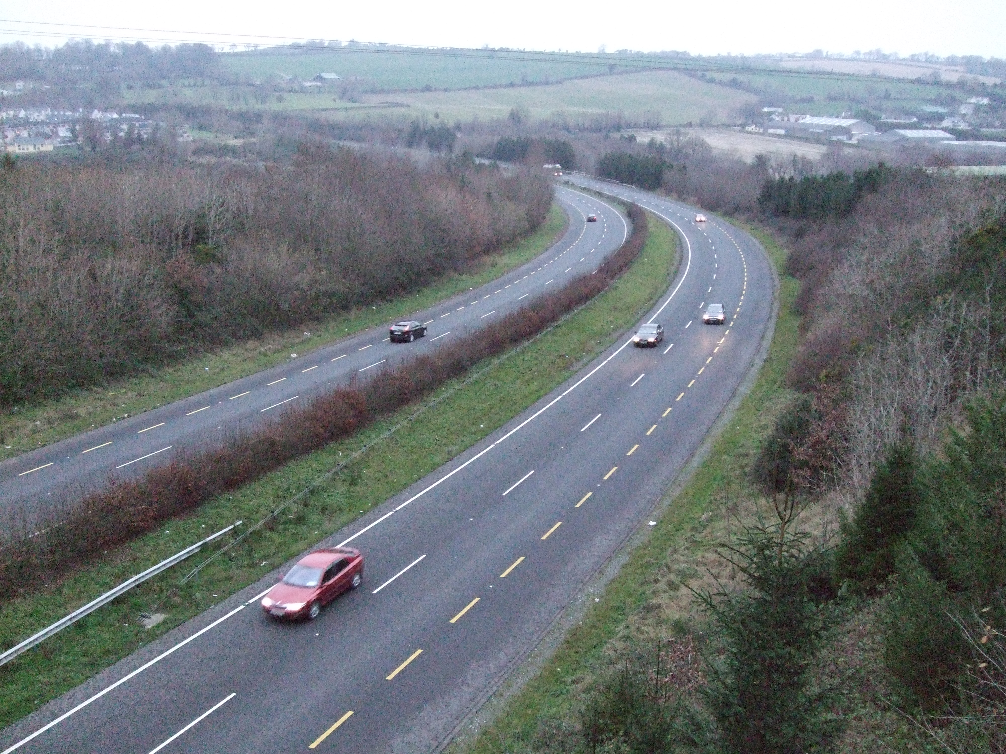 The N8 Glanmire Bypass